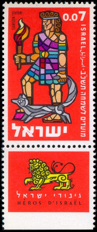 Joyous Festivals 5722 stamp - 0.07 Israeli lira - Heroes of Israel: Samson.